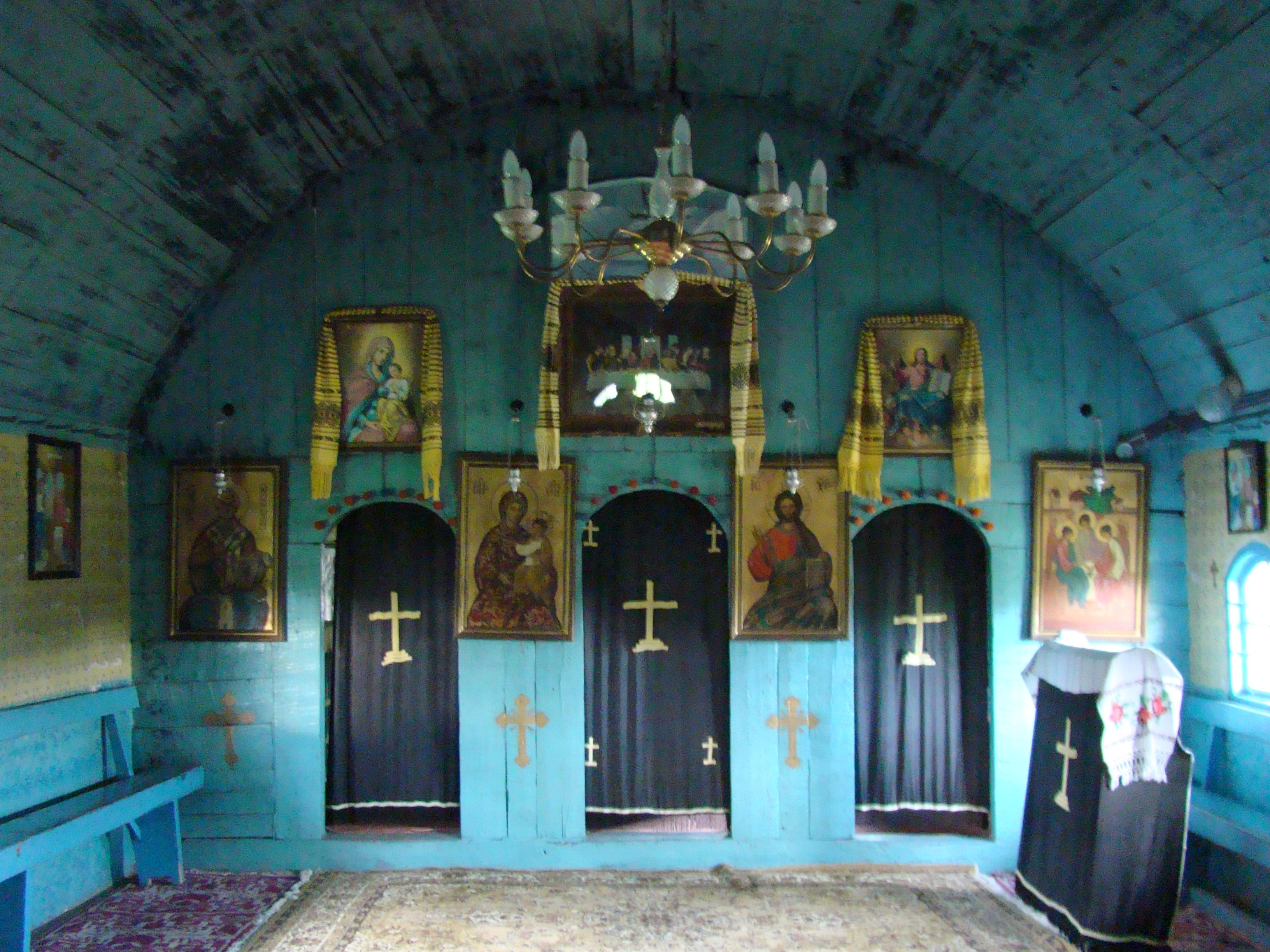 The wooden church in Sâncrai, Alba county, Romania